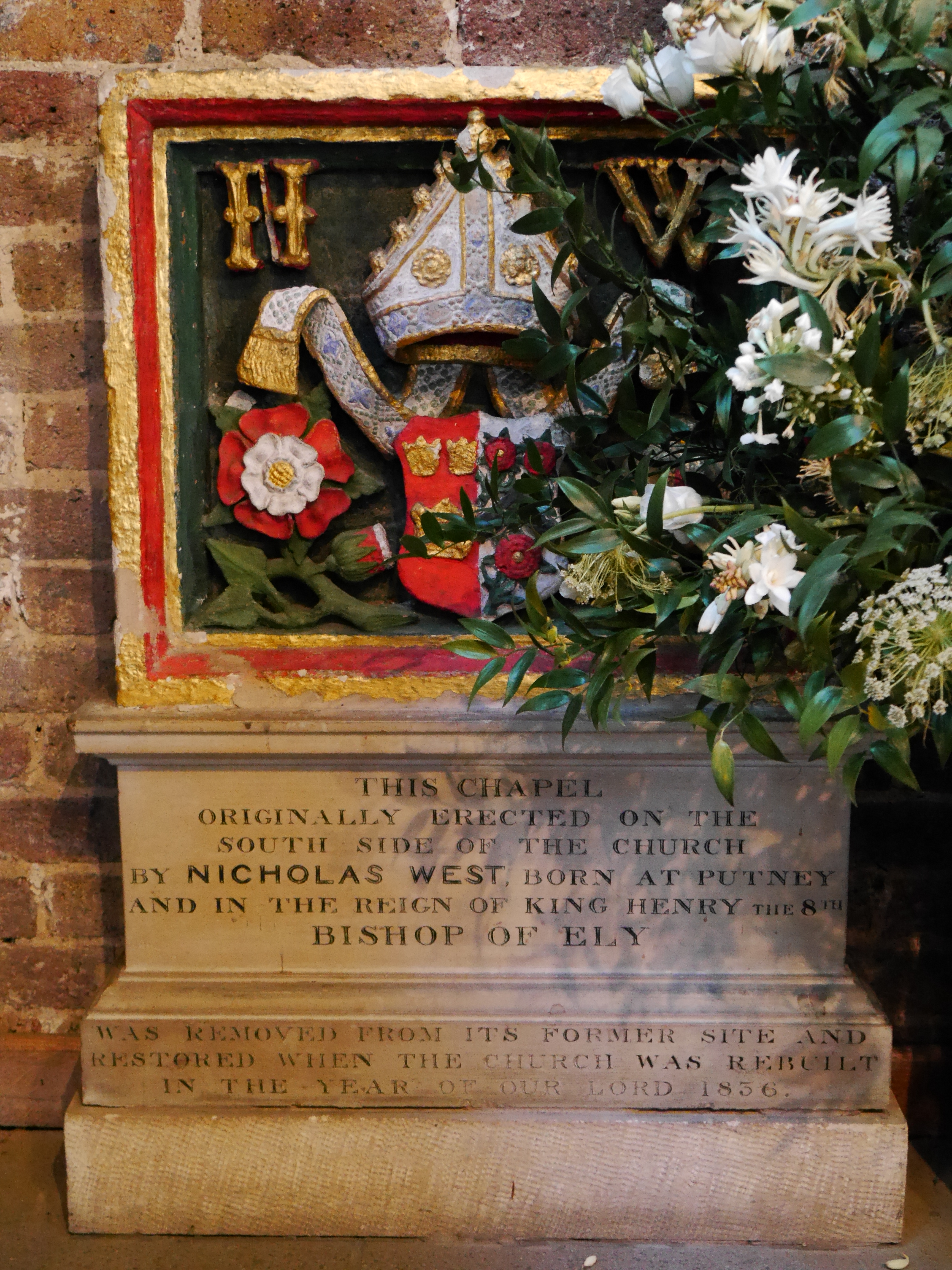 St Mary's, Putney Wikidata has entry Q7590181 with data related to this building.